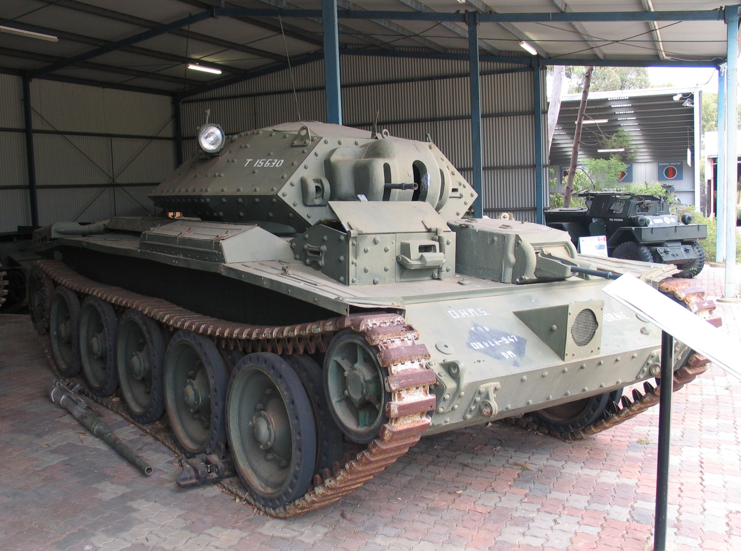 Cruiser Tank Mk VI Crusader Mk I in Royal Australian Armoured Corps Tank Museum, Puckapunyal, Australia. This vehicle is the only Crusader tank to arrive to Australia.